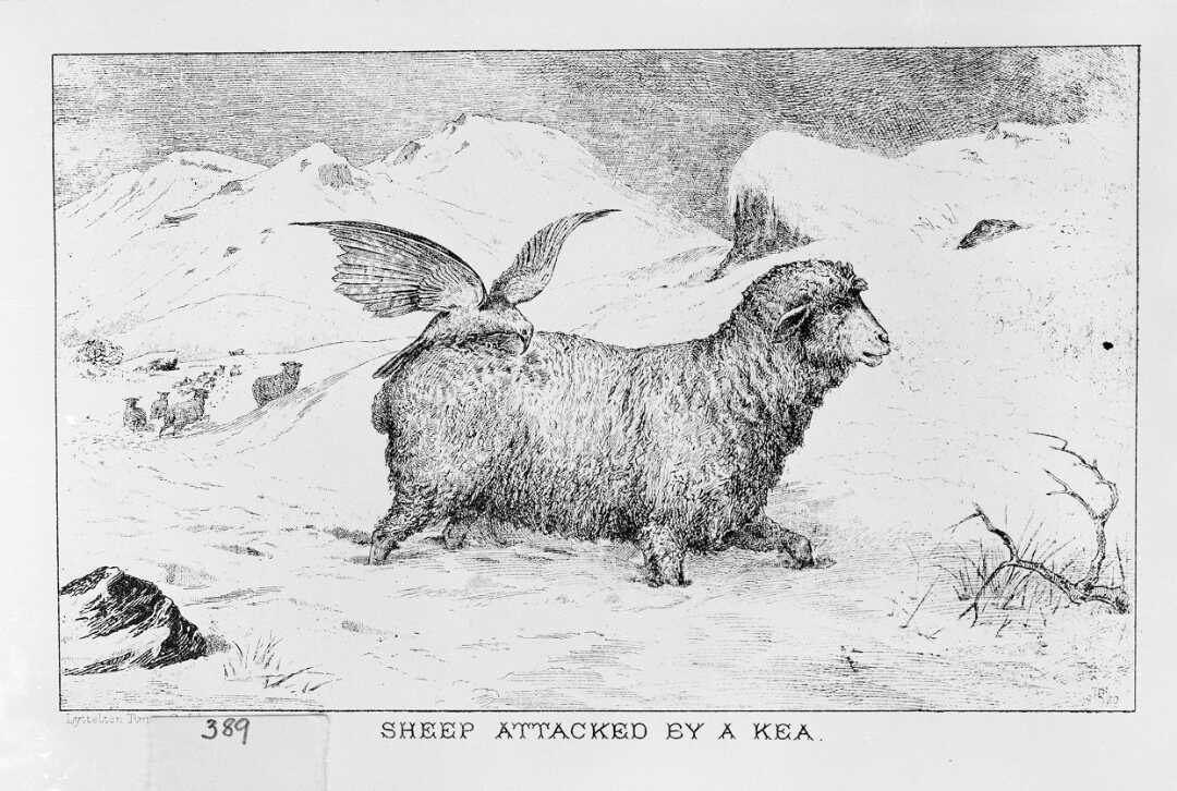 A sheep up to its knees in a snowdrift in hilly country, a kea perched on its back tearing at its kidney area. Artist unknown : Sheep attacked by a kea. [Christchurch] Lyttelton Times Co Ltd [1882]